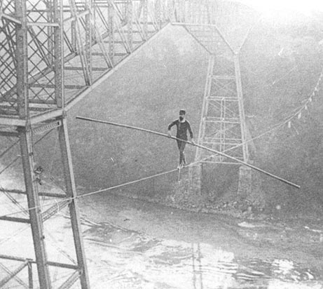 "Samuel Dixon Crossing on a 7/8 Inch Wire — 1890" — tightrope walking across the Niagara River